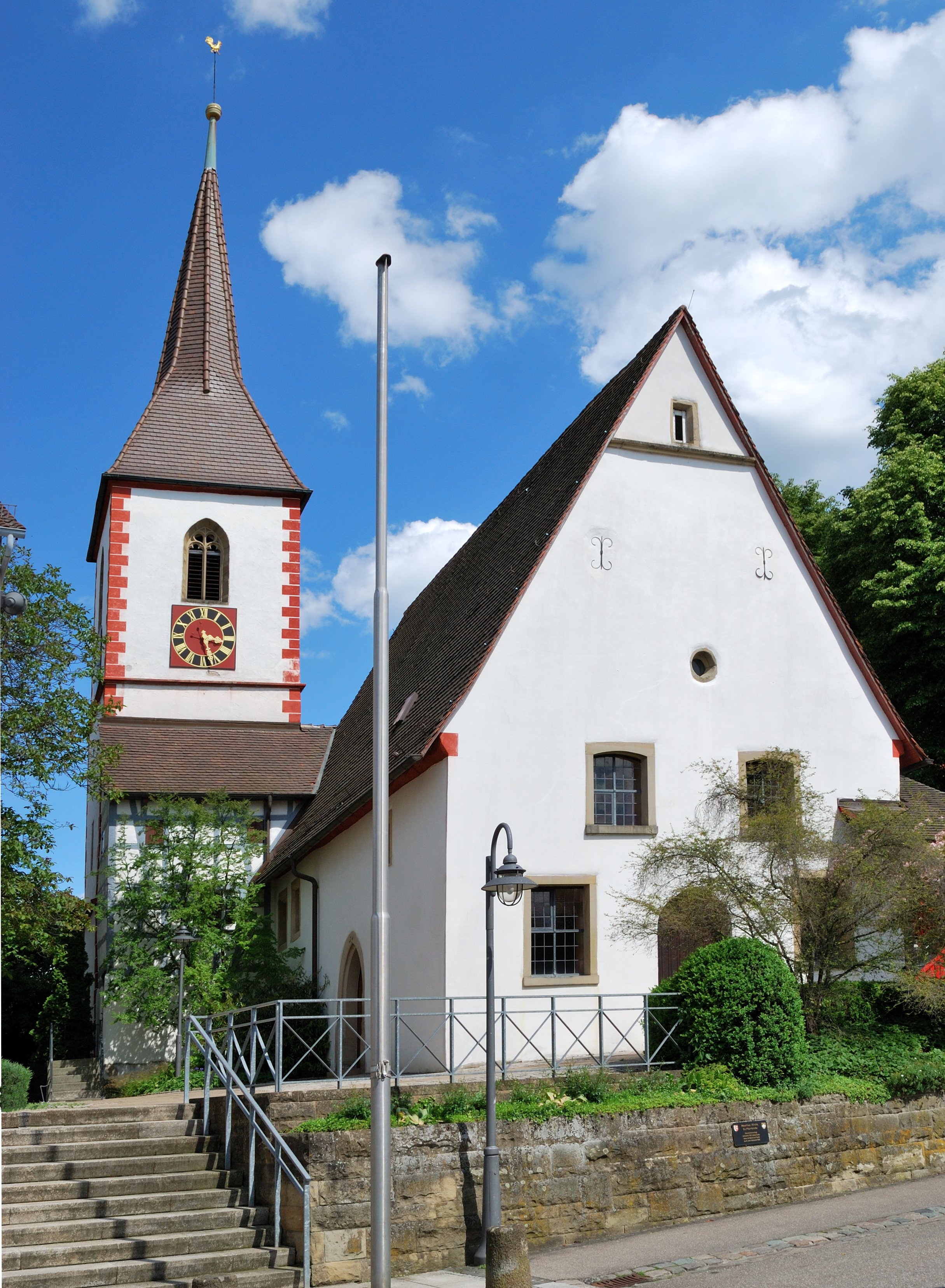 St. Mauritius church, evangelical parish church in Schöckingen, Baden-Württemberg, Germany.